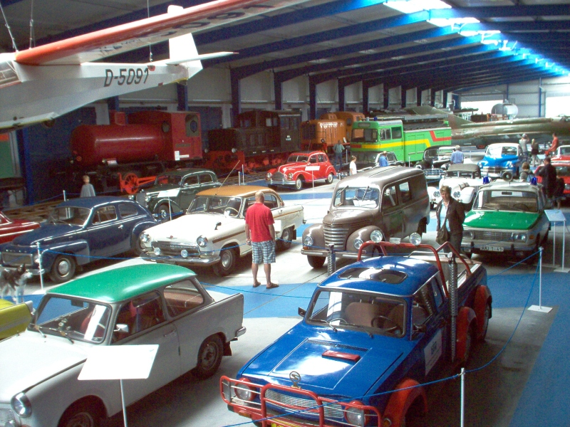 View inside the Rügen Railway & Technology Museum, Prora, Germany